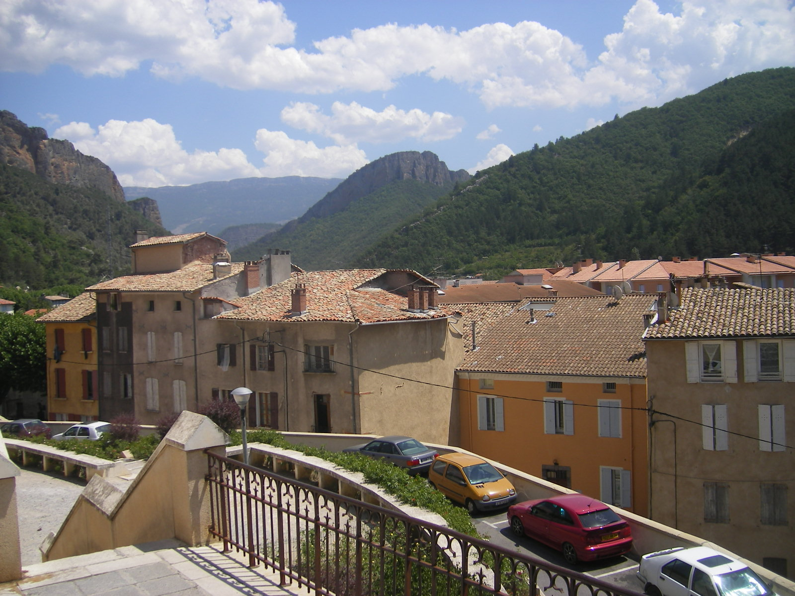 Digne-les-Bains, view from the cathedral